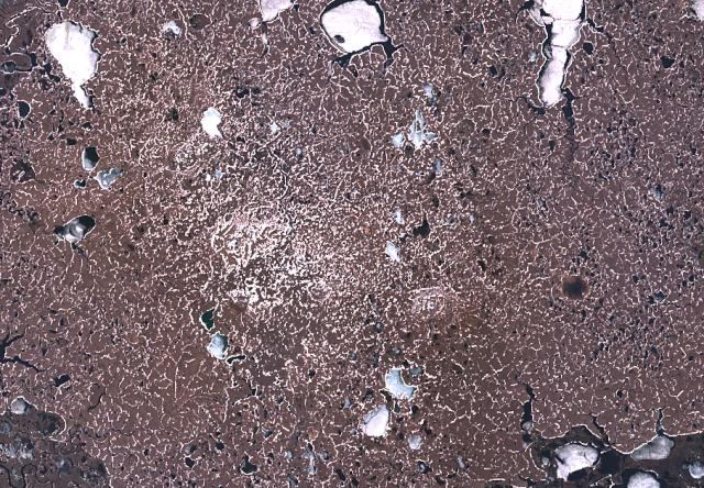 This relatively featureless area in this NASA Landsant image (with north to the top) of the Yukon-Kuskokwin delta contains part of the Ingakslugwat Hills volcanic field. This monogentic volcanic field consists of at least 32 small cinder cones and 8 larger craters covering an area of more than 500 sq km. Numerous small spatter cones and cinder cones dot the NW side of the volcanic field. The latest activity was considered to have occurred during the Holocene. One low cone containing a 400-m-wide lake may be a maar.